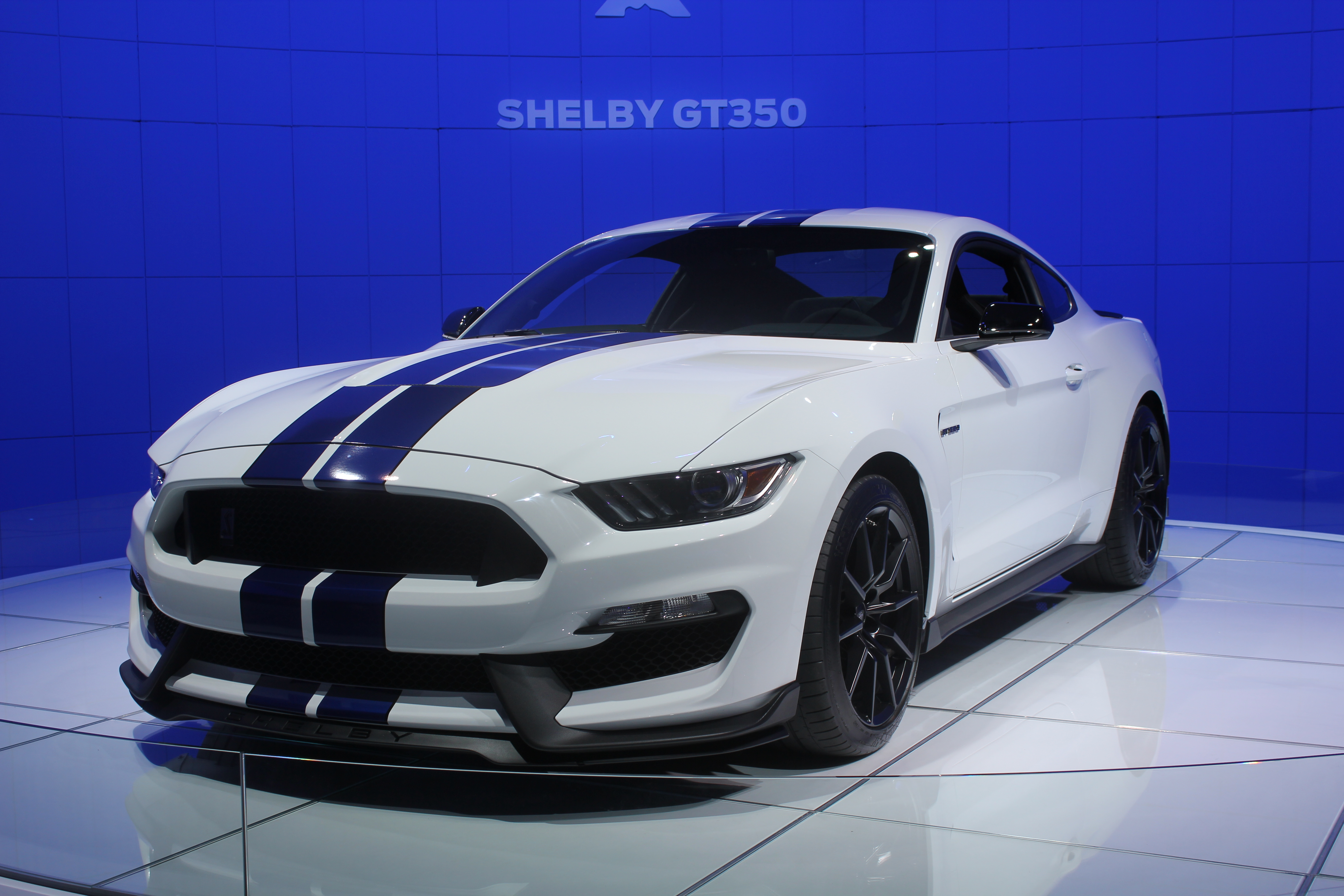 At the 2014 Los Angeles Auto Show Ford revealed the new 2016 Mustang GT350